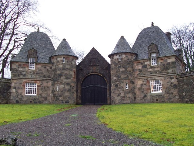 The Monkey House A fine gatehouse with stone monkey ornaments on the roof at Formakin Estate.